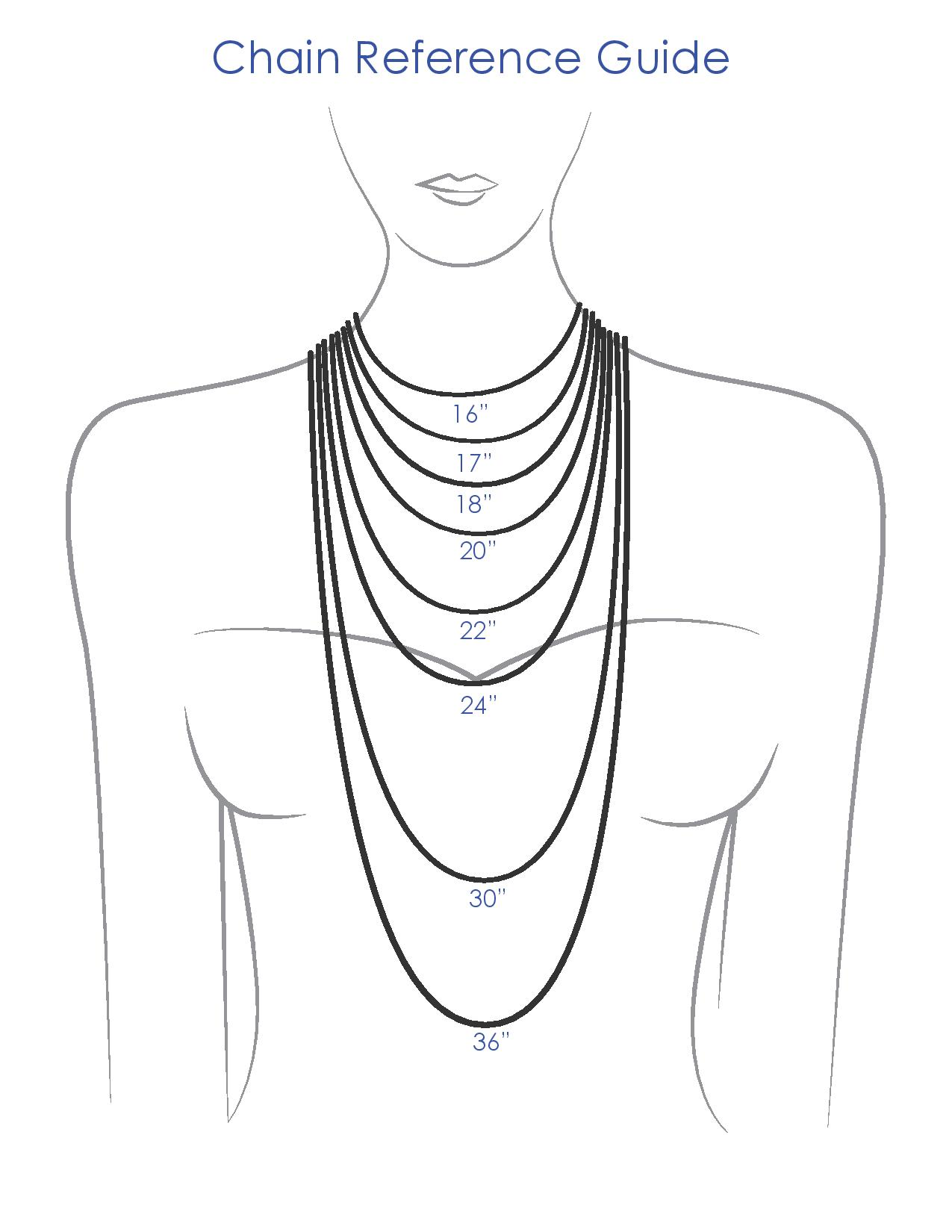 Chain Length Reference Diagram